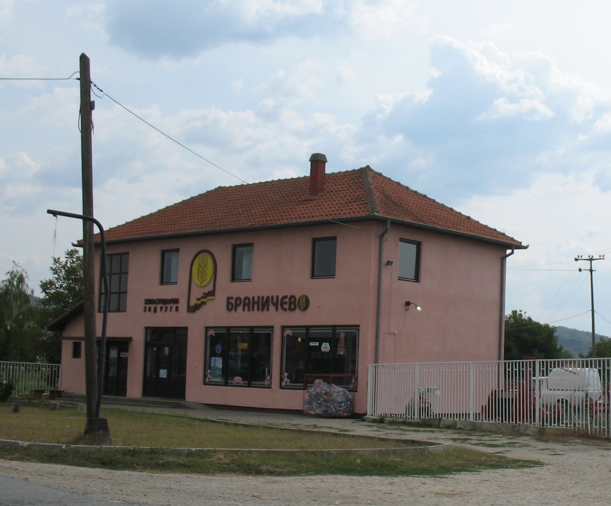 Braničevo in Golubac municipality, Serbia.